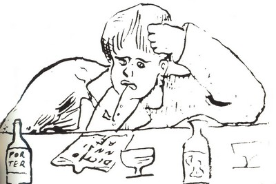 Drawing of Arthur Rimbaud by Paul Verlaine